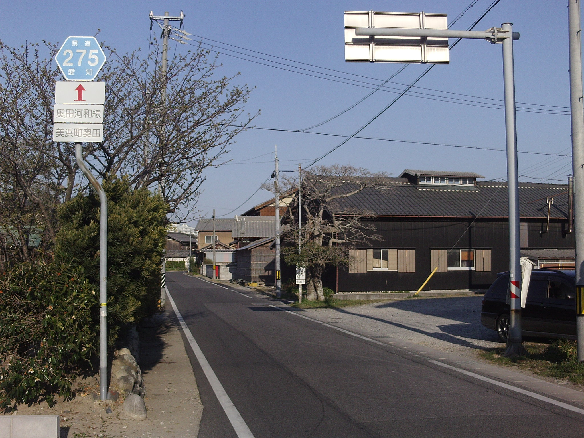 Aichi prefectural road No.275 in Okuda, Mihama-cho, Chita-gun, Aichi.